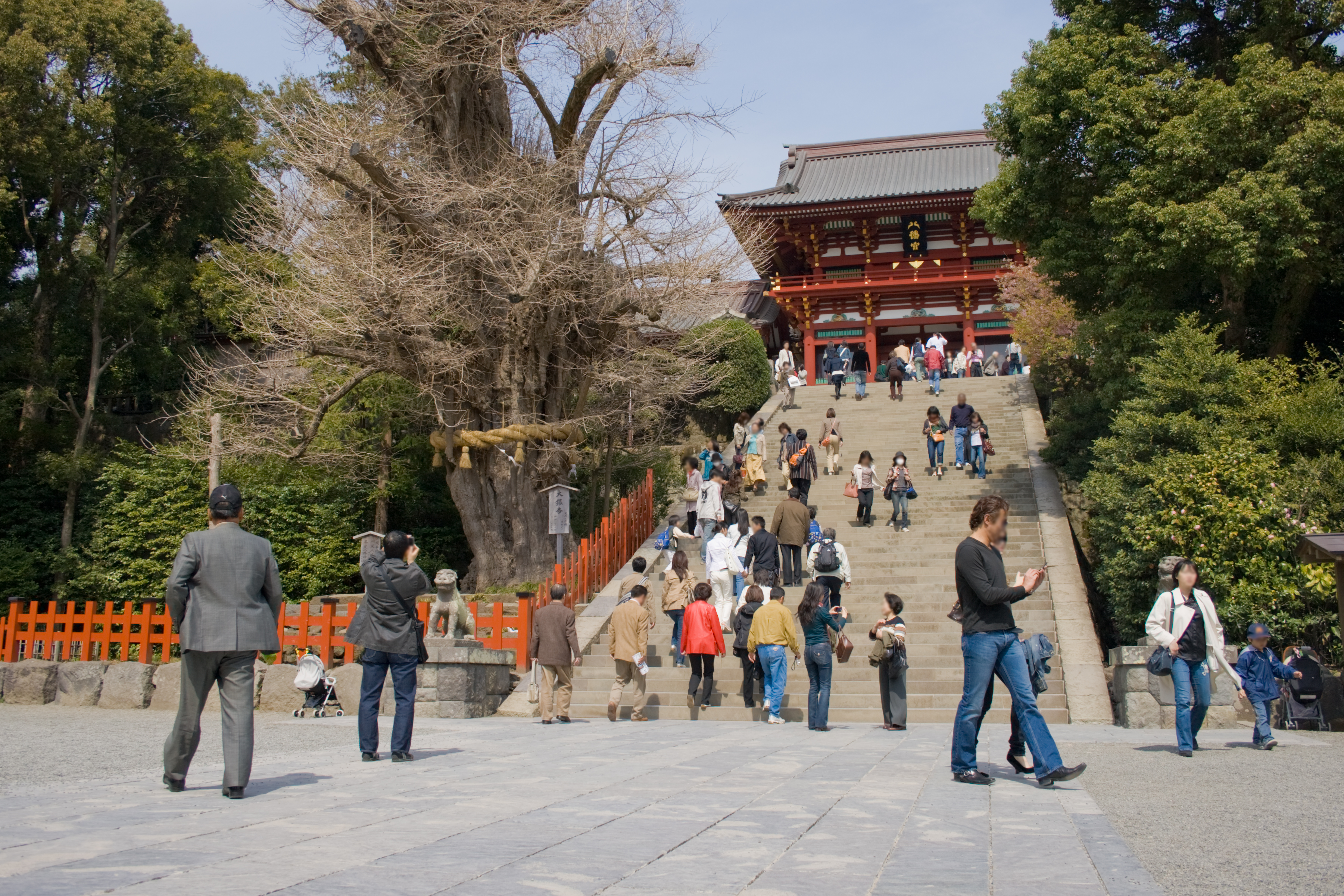 Tsurugaoka Hachiman-Shrine (鶴岡八幡宮 Tsurugaoka-hachiman-gū) in Kamakura city, Kanagawa pref, Japan.